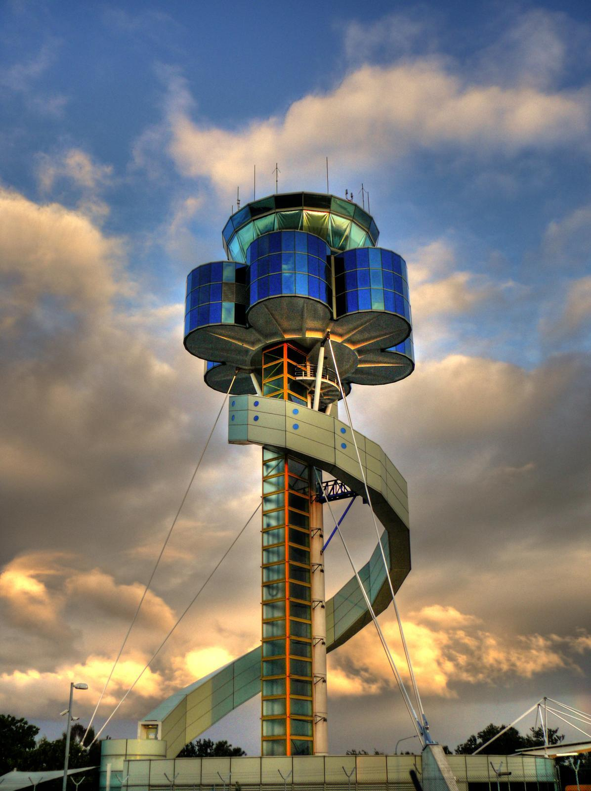 Sydney Airport's control tower